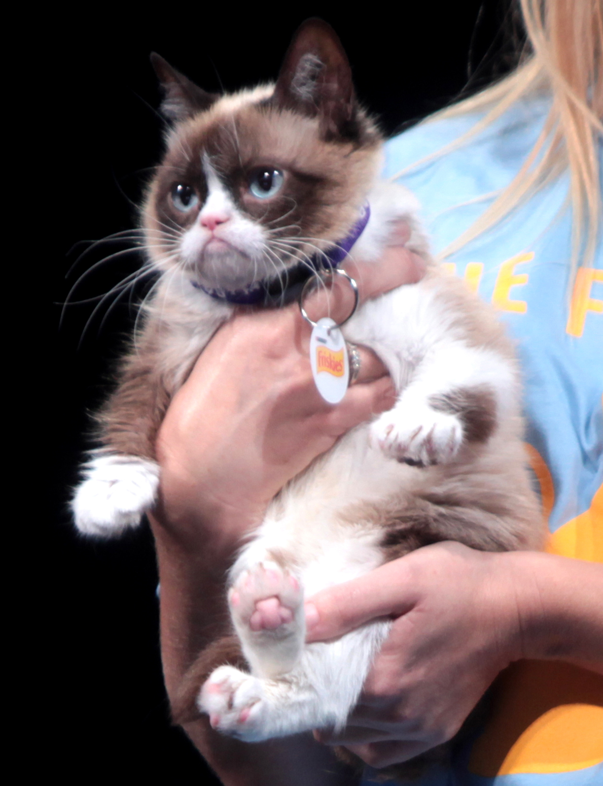 Grumpy Cat speaking at the 2014 VidCon on June 28, 2014.